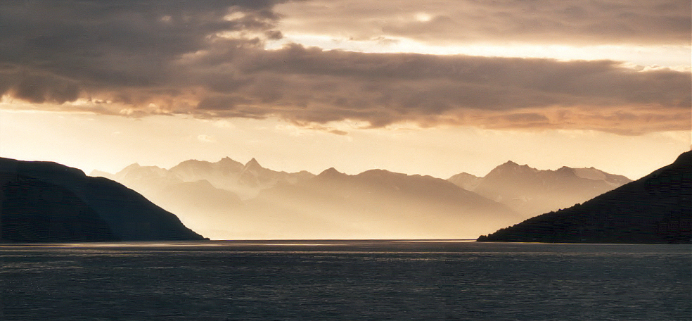 Lyngenfjord near Skibotn in north norway at evening